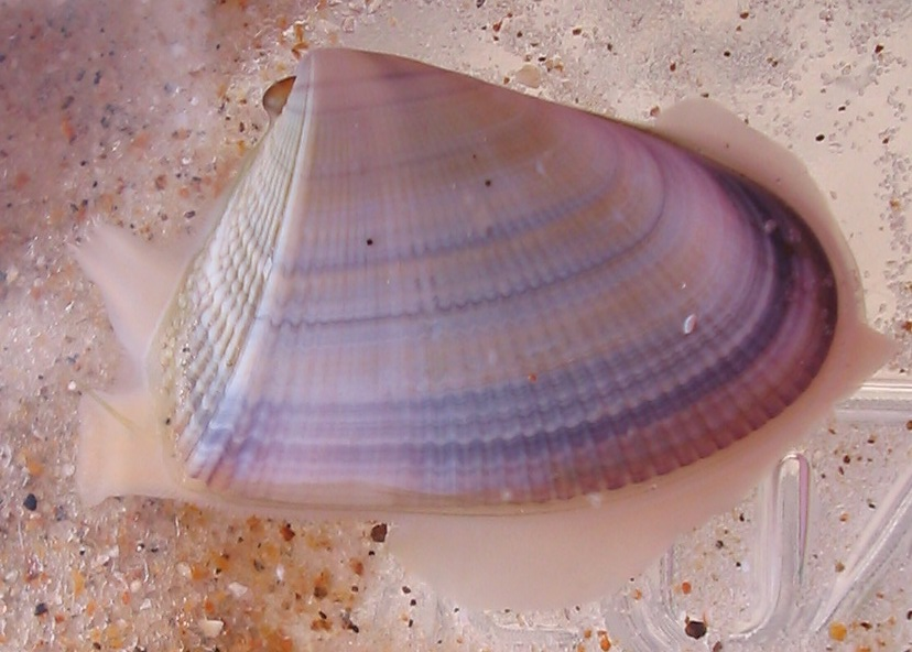 Concha Bivalvia / Bivalve shell